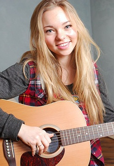 Image of actress Taylor Hickson